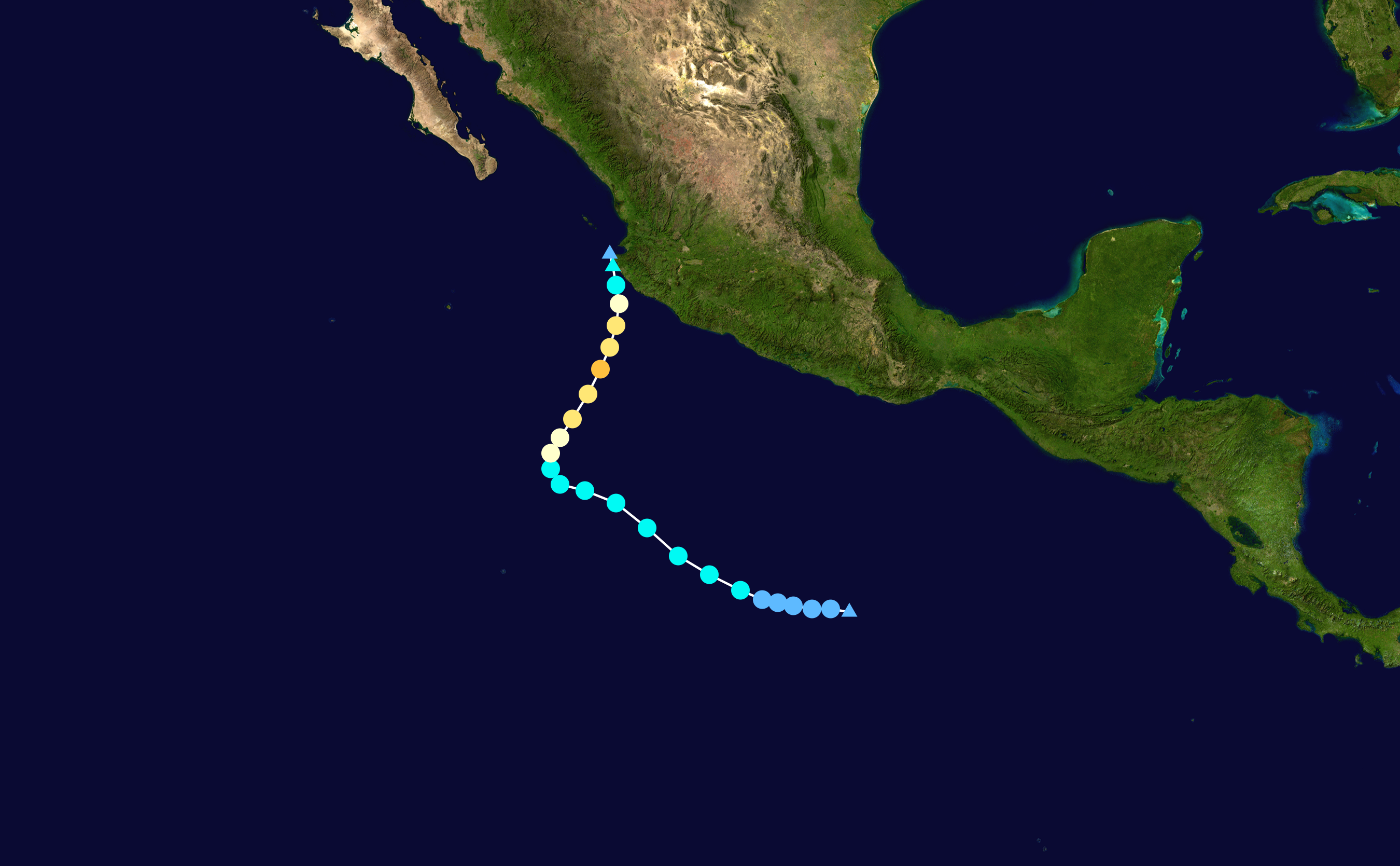 Track map of Hurricane Bud of the 2012 Pacific hurricane season. The points show the location of the storm at 6-hour intervals. The colour represents the storm's maximum sustained wind speeds as classified in the Saffir–Simpson scale (see below), and the shape of the data points represent the nature of the storm, according to the legend below. Saffir–Simpson scale Tropical depression≤38 mph≤62 km/h Category 3111–129 mph178–208 km/h Tropical storm39–73 mph63–118 km/h Category 4130–156 mph209–251 km/h Category 174–95 mph119–153 km/h Category 5≥157 mph≥252 km/h Category 296–110 mph154–177 km/h Unknown Storm type Tropical cyclone Subtropical cyclone Extratropical cyclone / Remnant low / Tropical disturbance / Monsoon depression